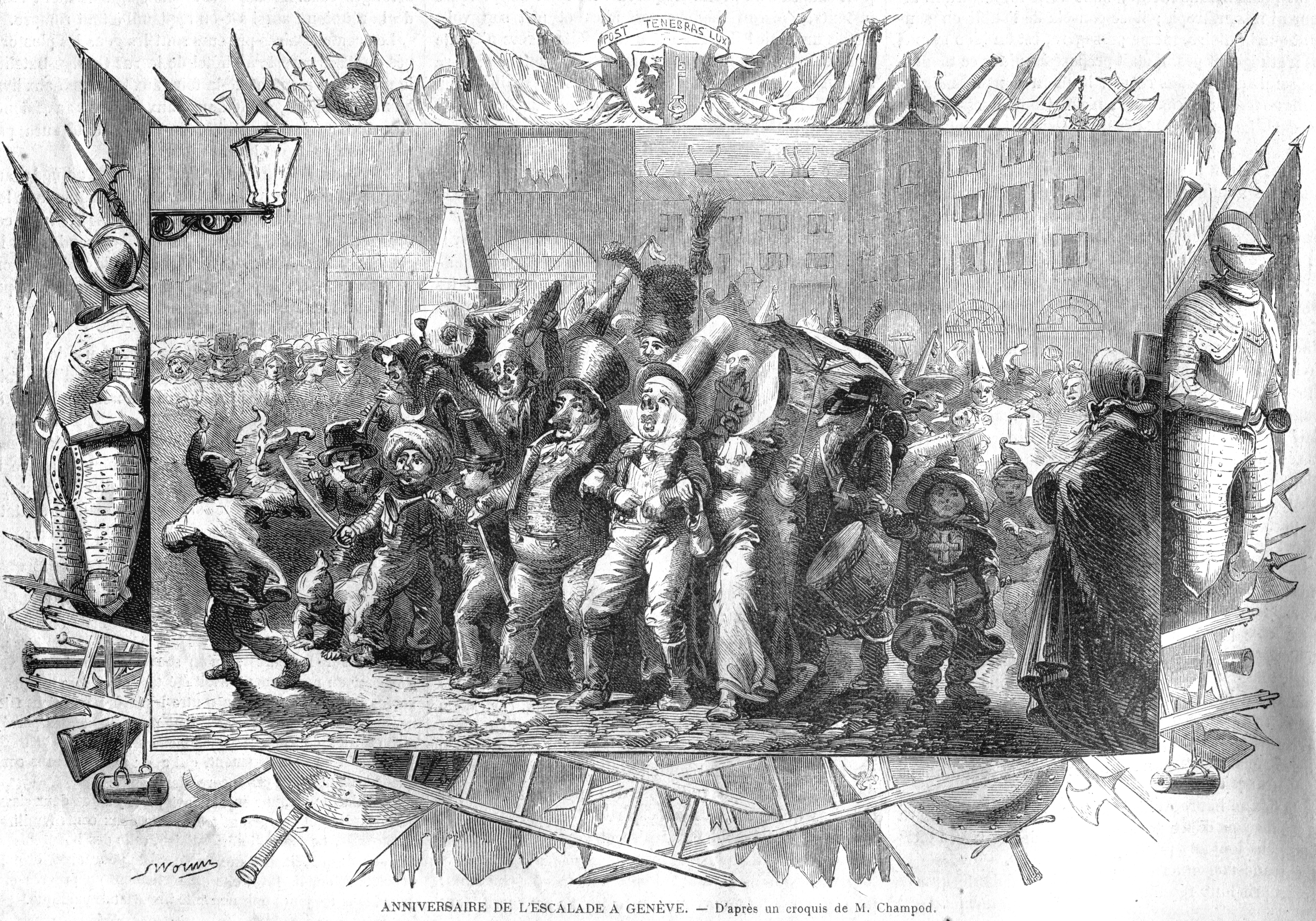 L'Illustration 1862 gravure Anniversaire de l'Escalade à Genève, 12 dec 1861